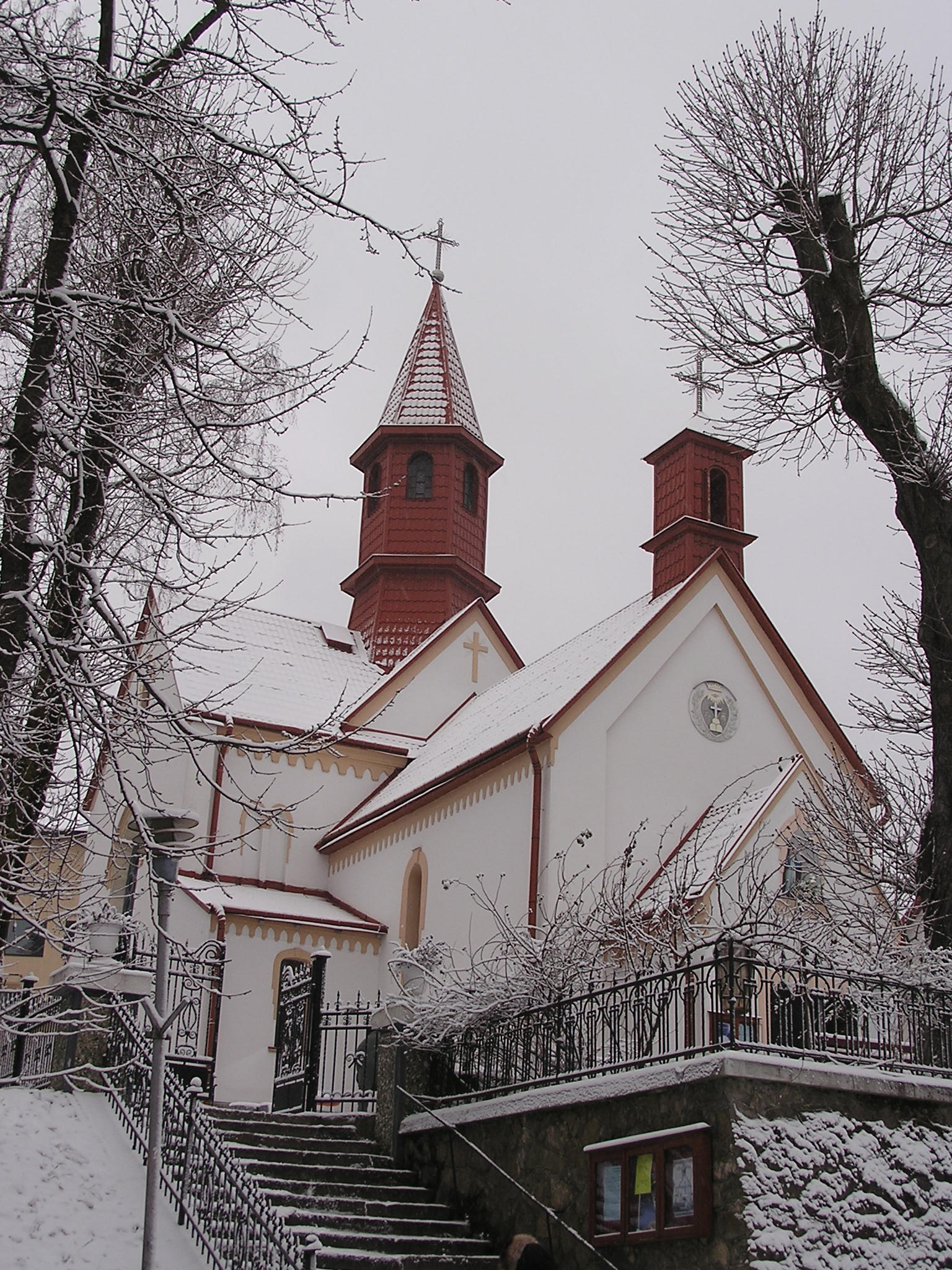 Truskavets